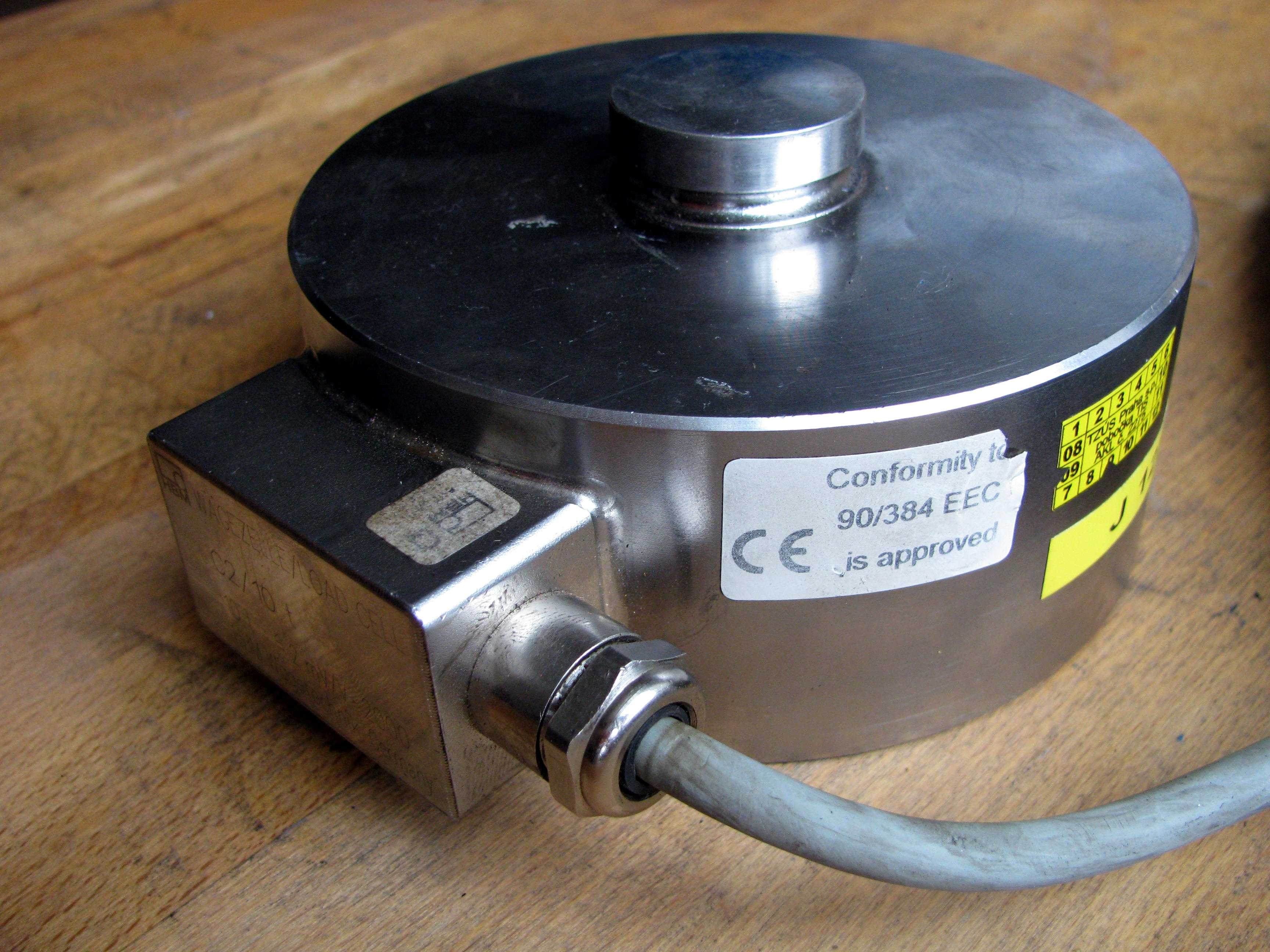 Load cell 100kN